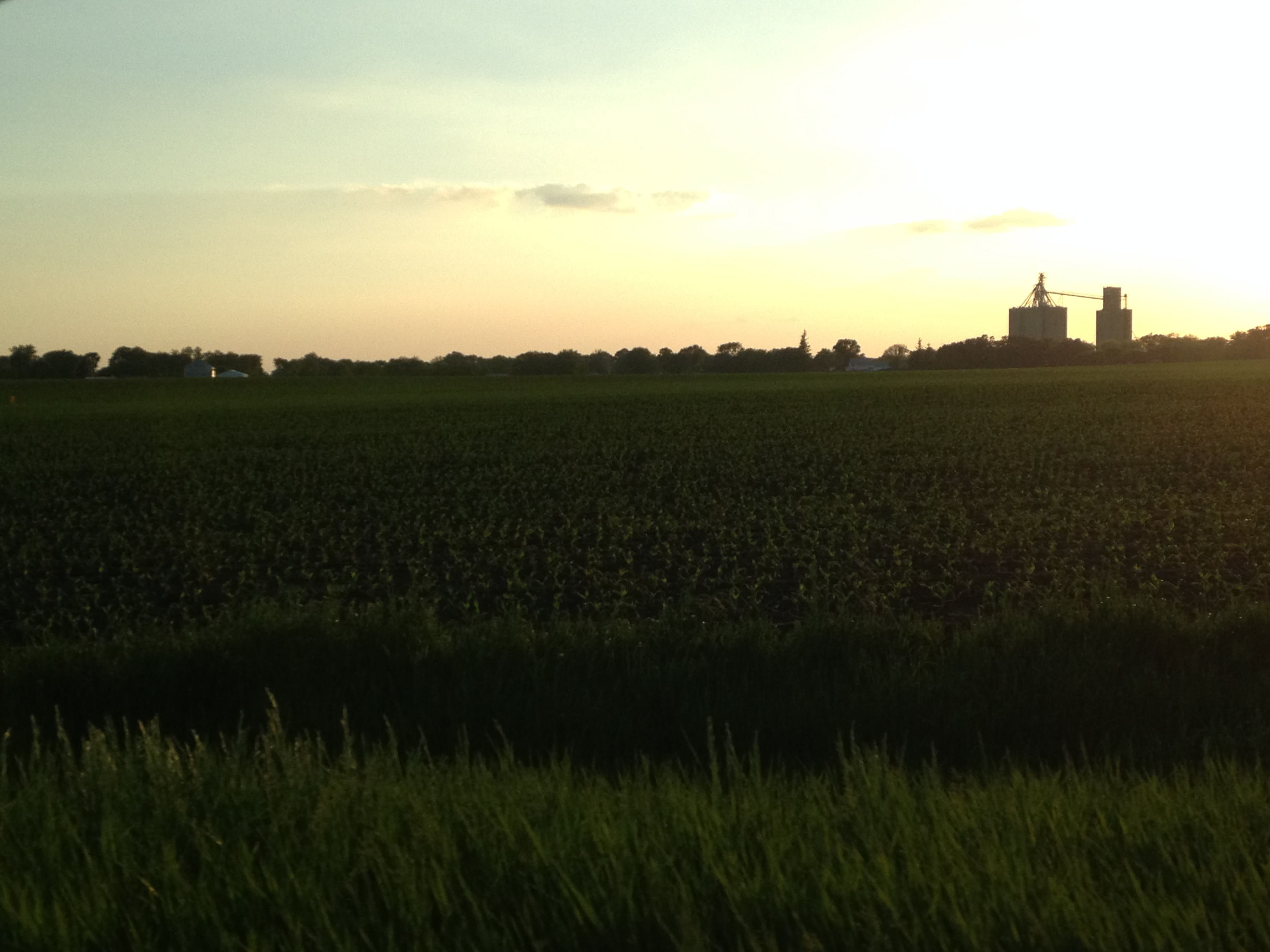 Just outside of Somers, Iowa (view of Somers, Iowa elevator)